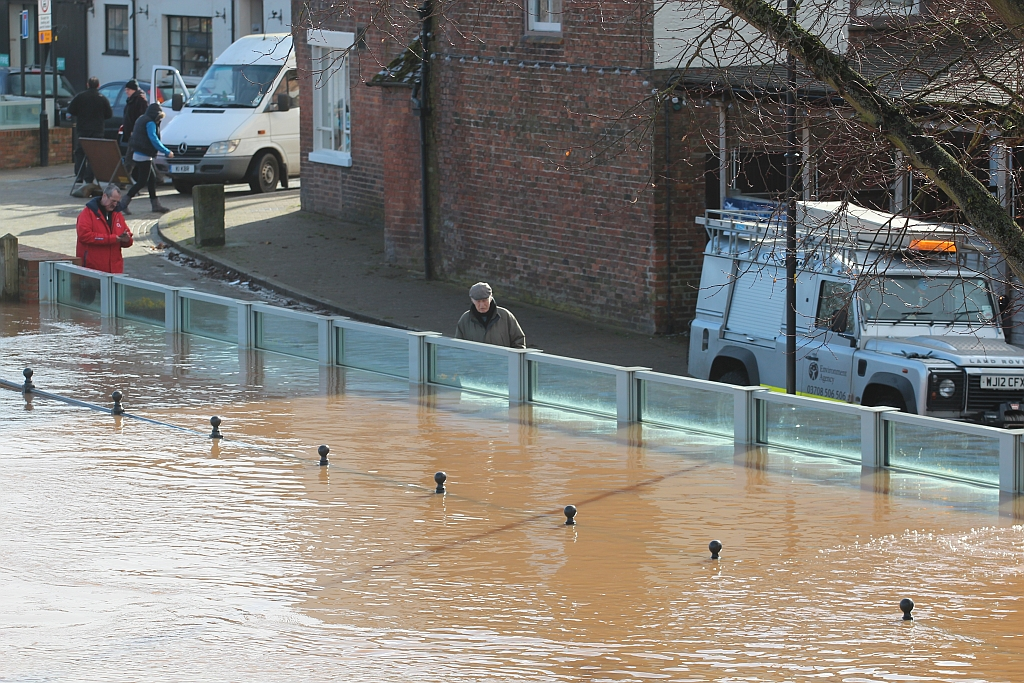 Flood wall in action, Upton, Waterside